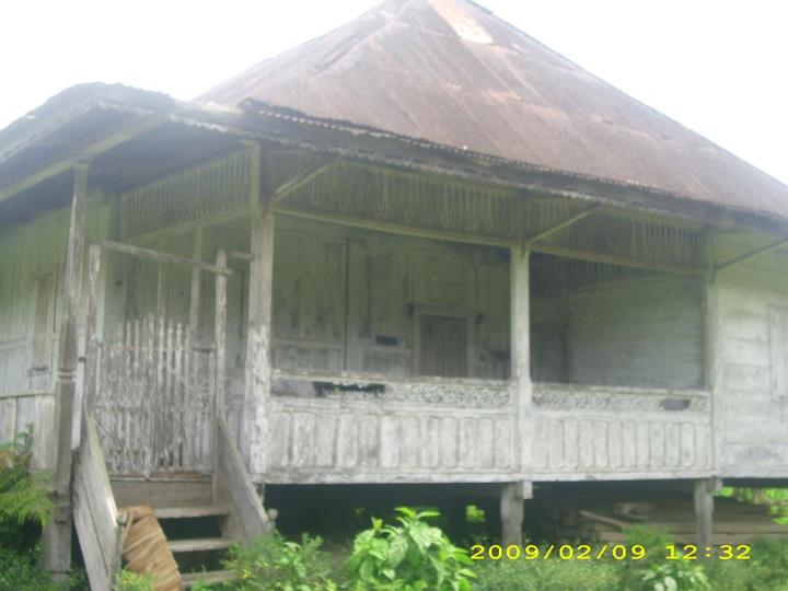 Lamban gedung buay bejalan diway